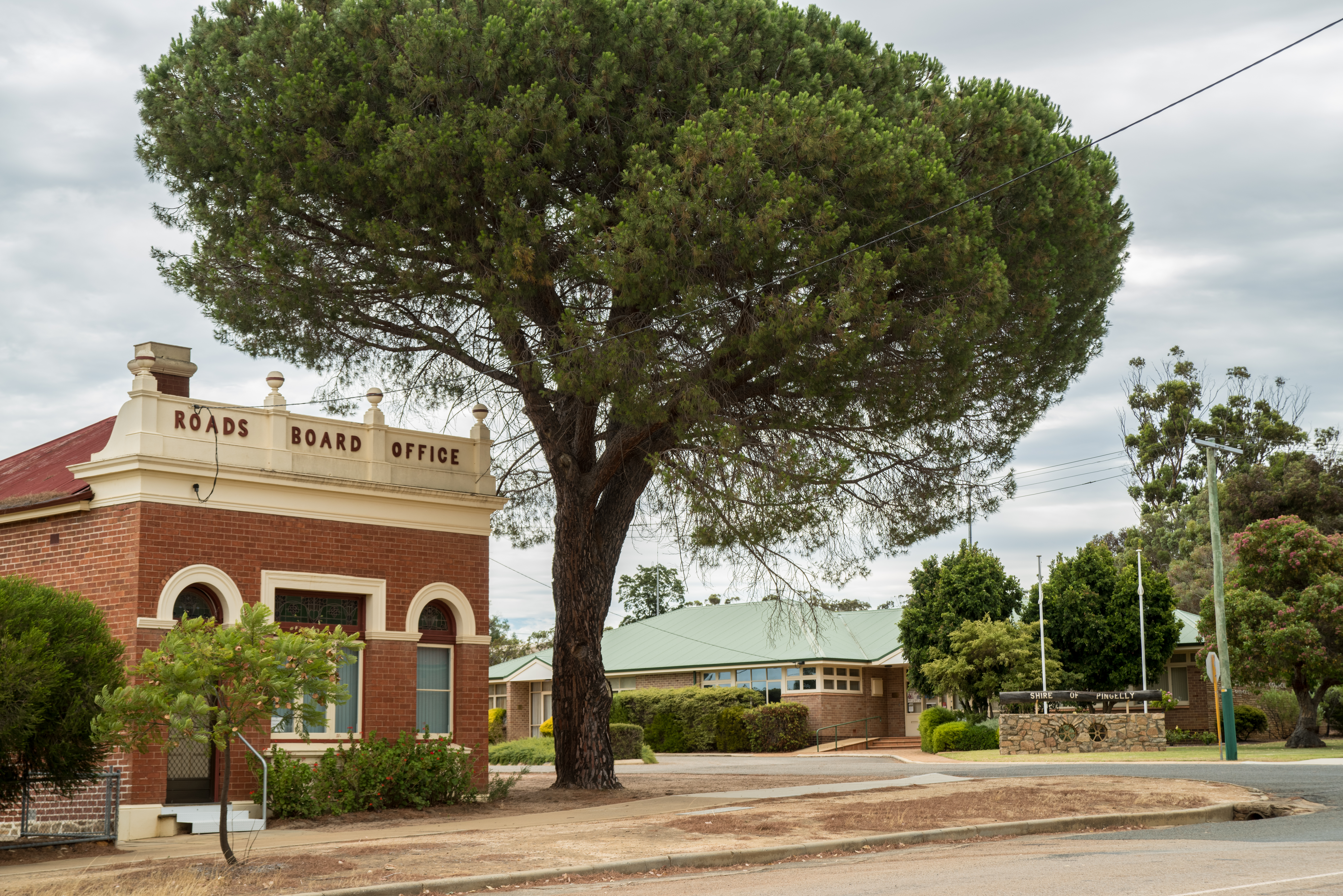 Pingelly Roadboard offices with Shire of Pingelly offices behind